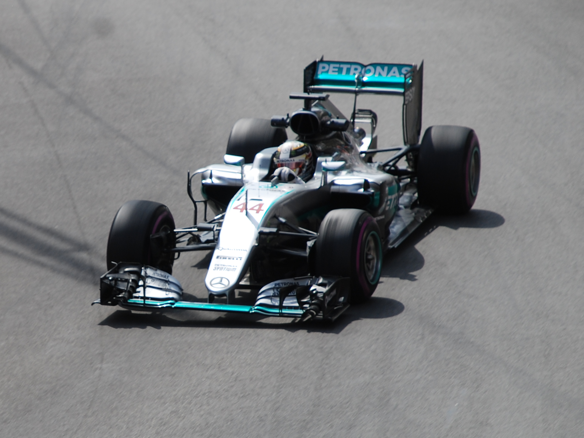 Lewis Hamilton at the 2016 Monaco Grand Prix